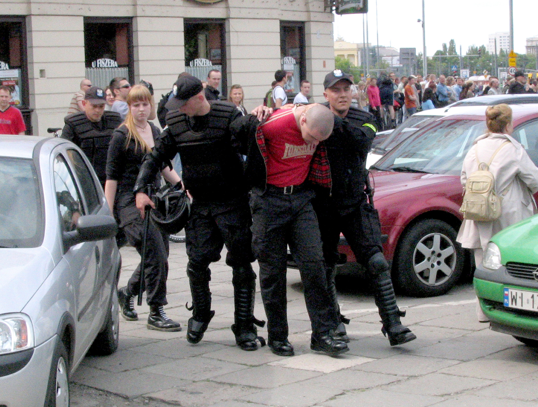 Parada Równości 2006 in Warsaw: Anti-gay demonstrator, arrested by police forces.